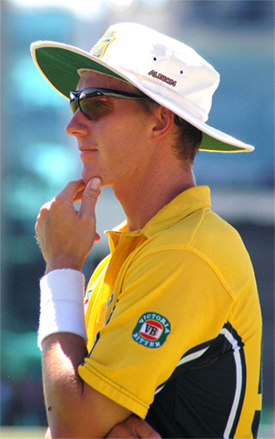 Brett Lee in the outfield - England vs Australia, Bellerive Oval. Match Details Cropped from Wayne McLean's (jgritz) photo, Image:Brett lee.JPG.